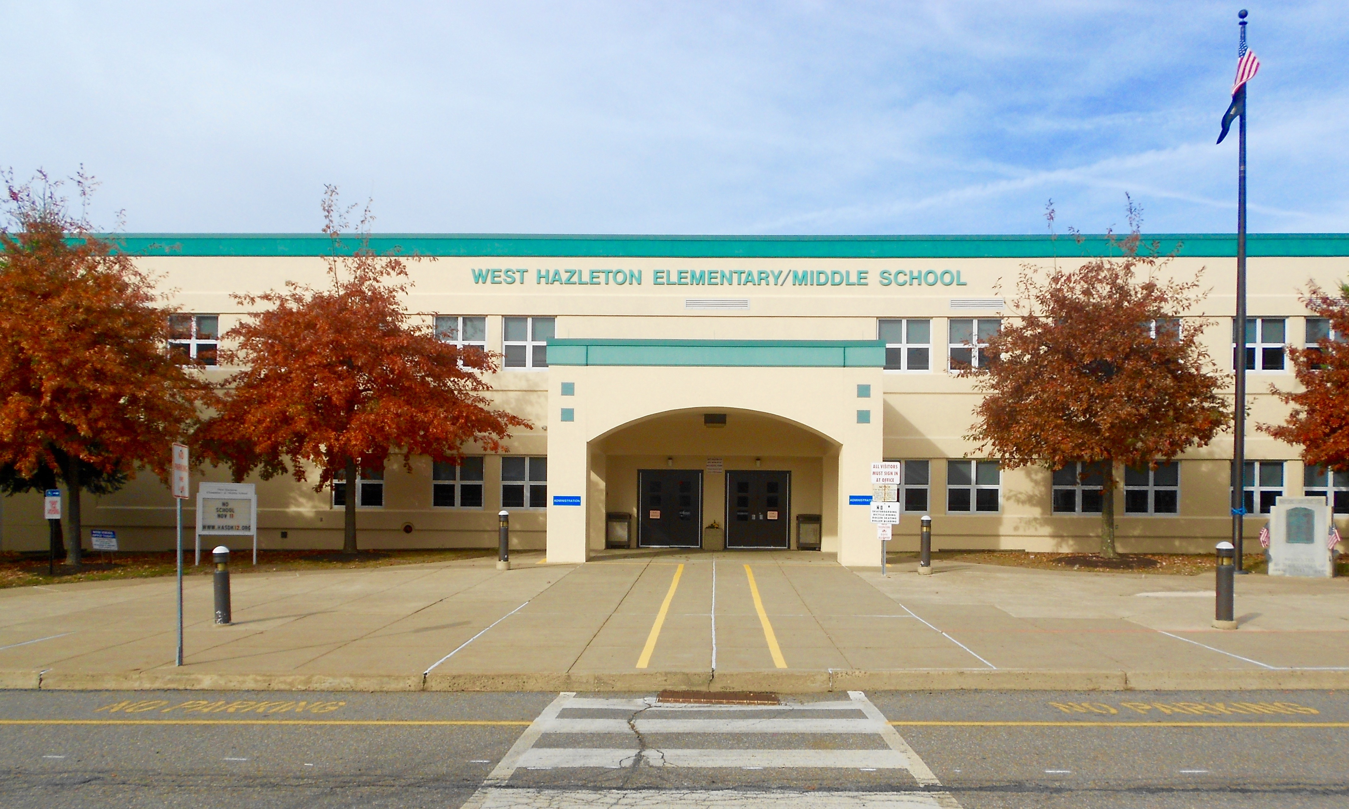 West Hazelton Elementary School in West Hazelton Pennsylvania